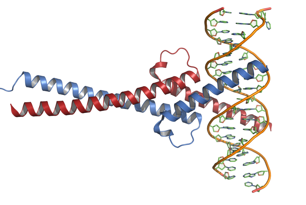 Crystal structure of Myc and Max in complex with DNA.